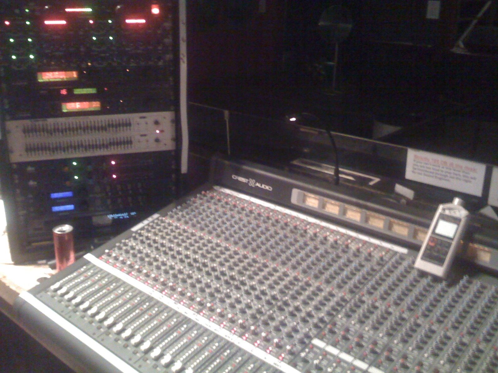 FOH @ The Zoo, Brisbane Crest Audio console unknown audio analizers FOH rack